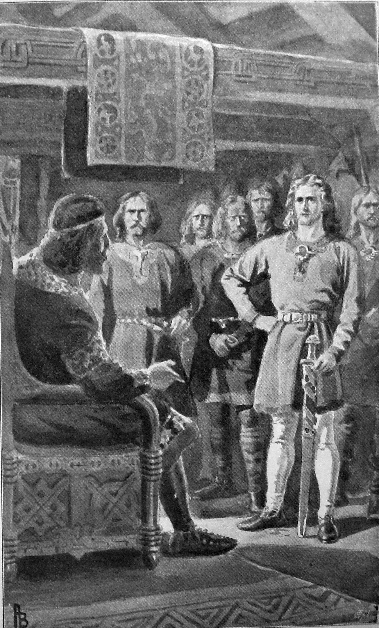 Illustration to Gunnlaugs saga. Gunnlaugr ormstunga walks before Lord Eiríkr Hákonarson with a boil on his foot declaring "Why go halt while both legs are long alike?"